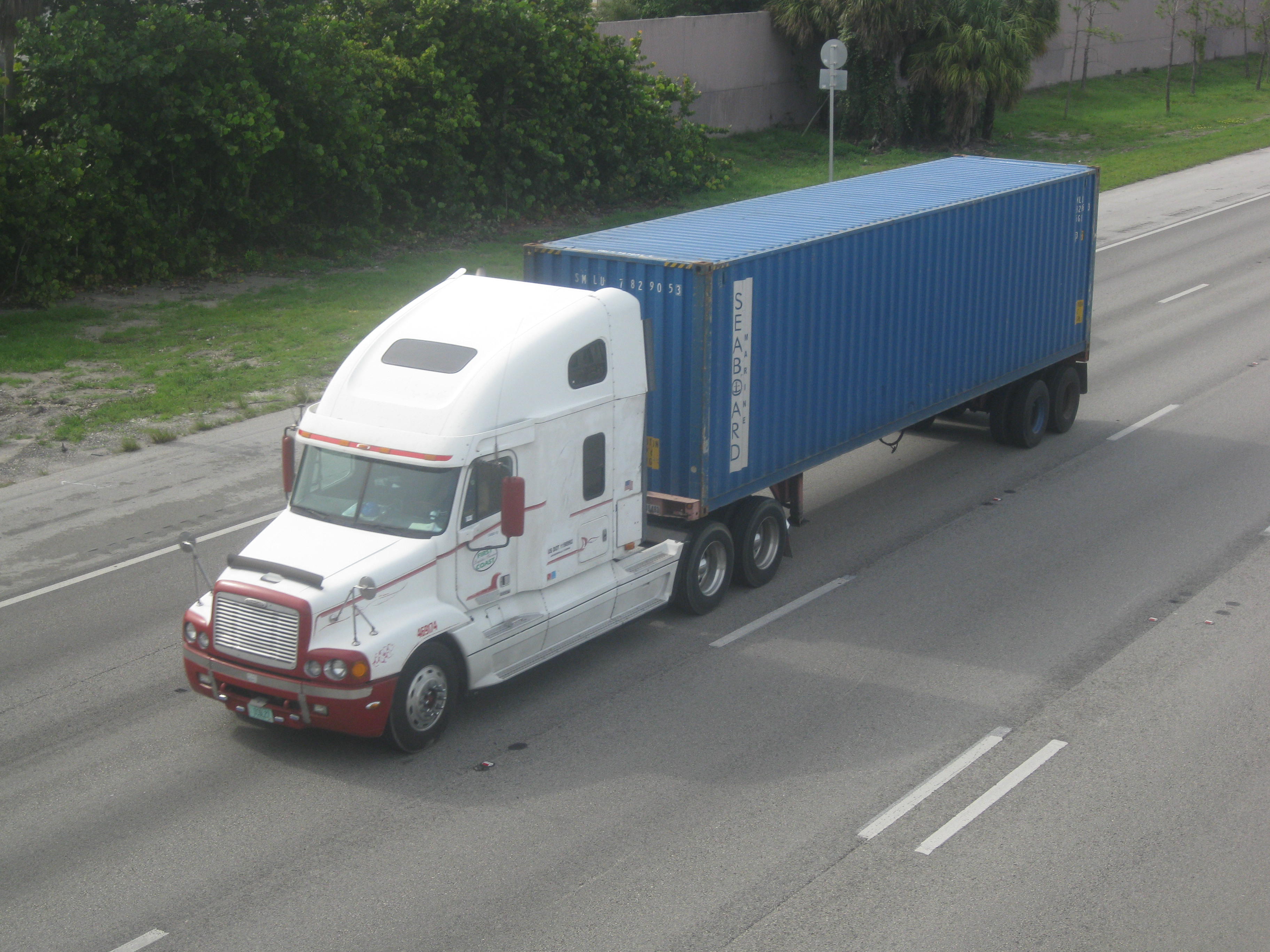 a Freightliner truck pulling an Intermodal container heading north on Interstate 95 in Boca Raton, Florida.